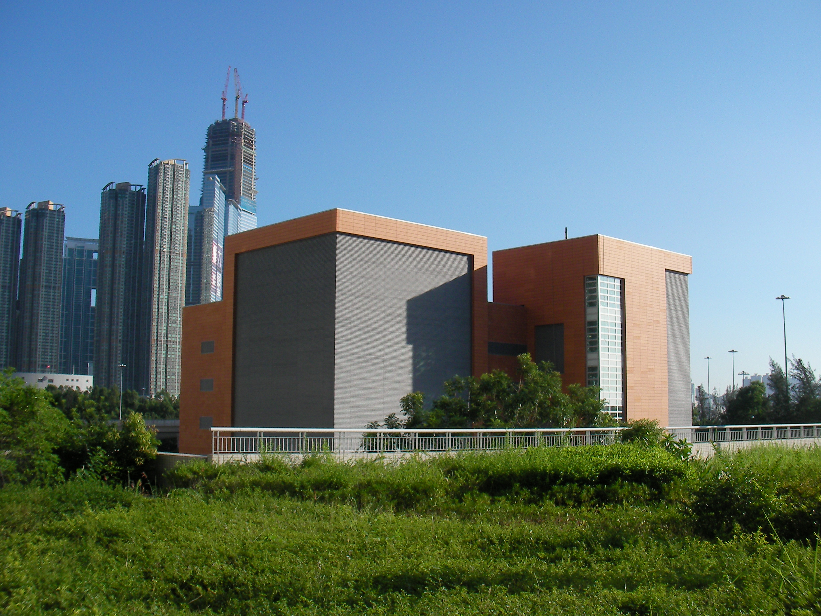 MTR West Rail Line Kowloon Southern Link Yau Ma Tei Ventilation Building